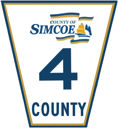 Simcoe County Road 4 sign